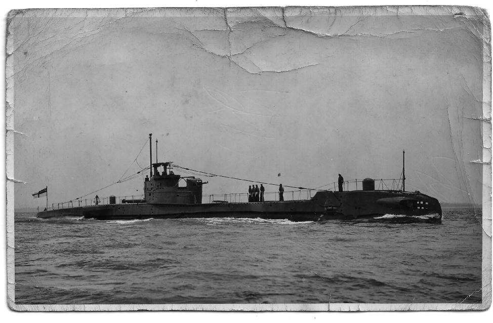 A photograph of the T Class submarine HMS Tally-ho at sea.